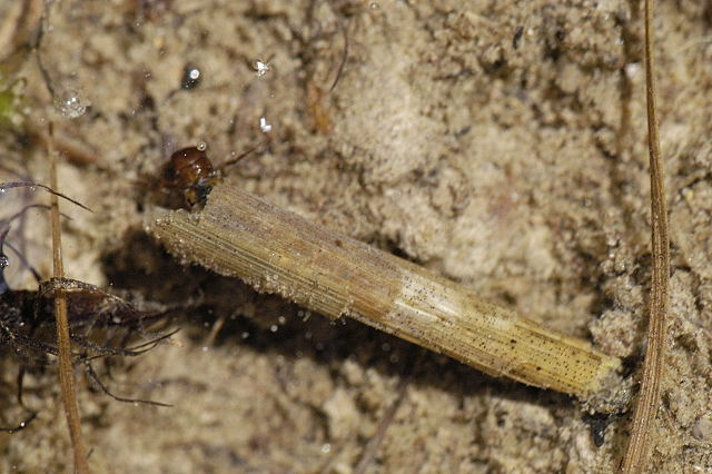 Picture taken in Commanster, Belgian High Ardennes . Species: Phryganea bipunctata larva